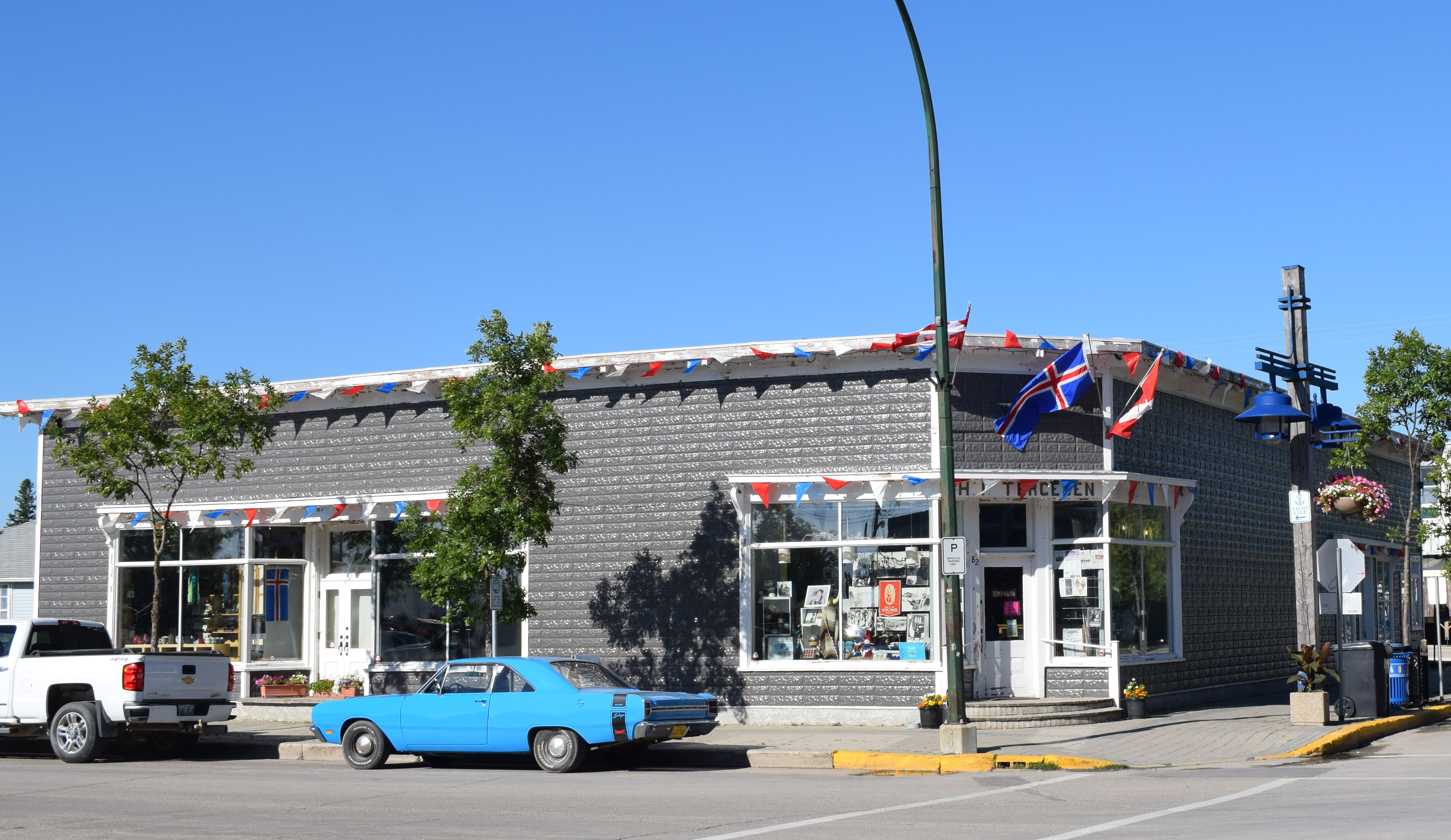 This is the H. P. Tergesen Building. The store was constructed in 1898 and is still in operation as of 2017. The store mostly caters to tourists now.